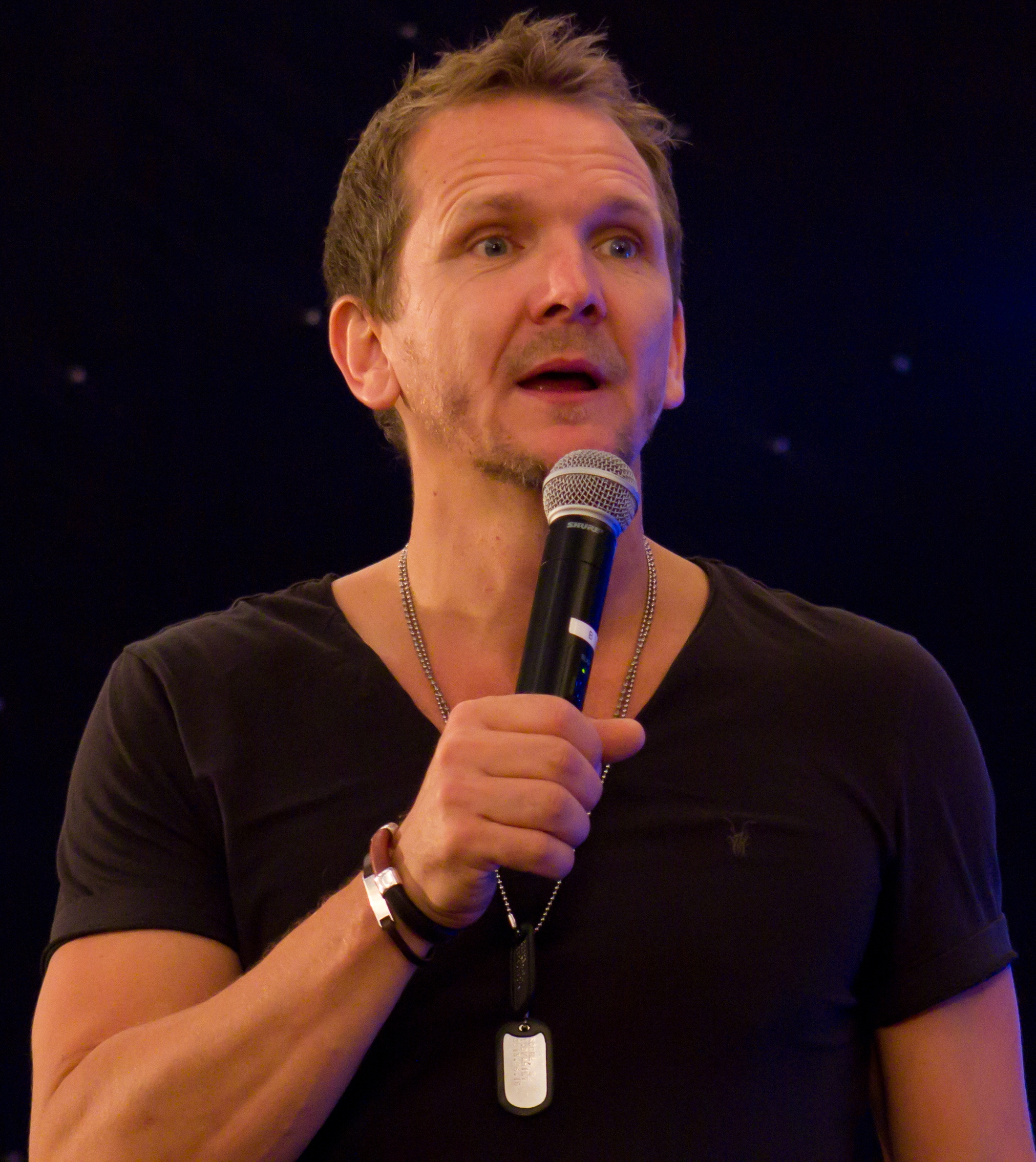 Sebastian Roché in West Midlands, England, United Kingdom, on June 16, 2013